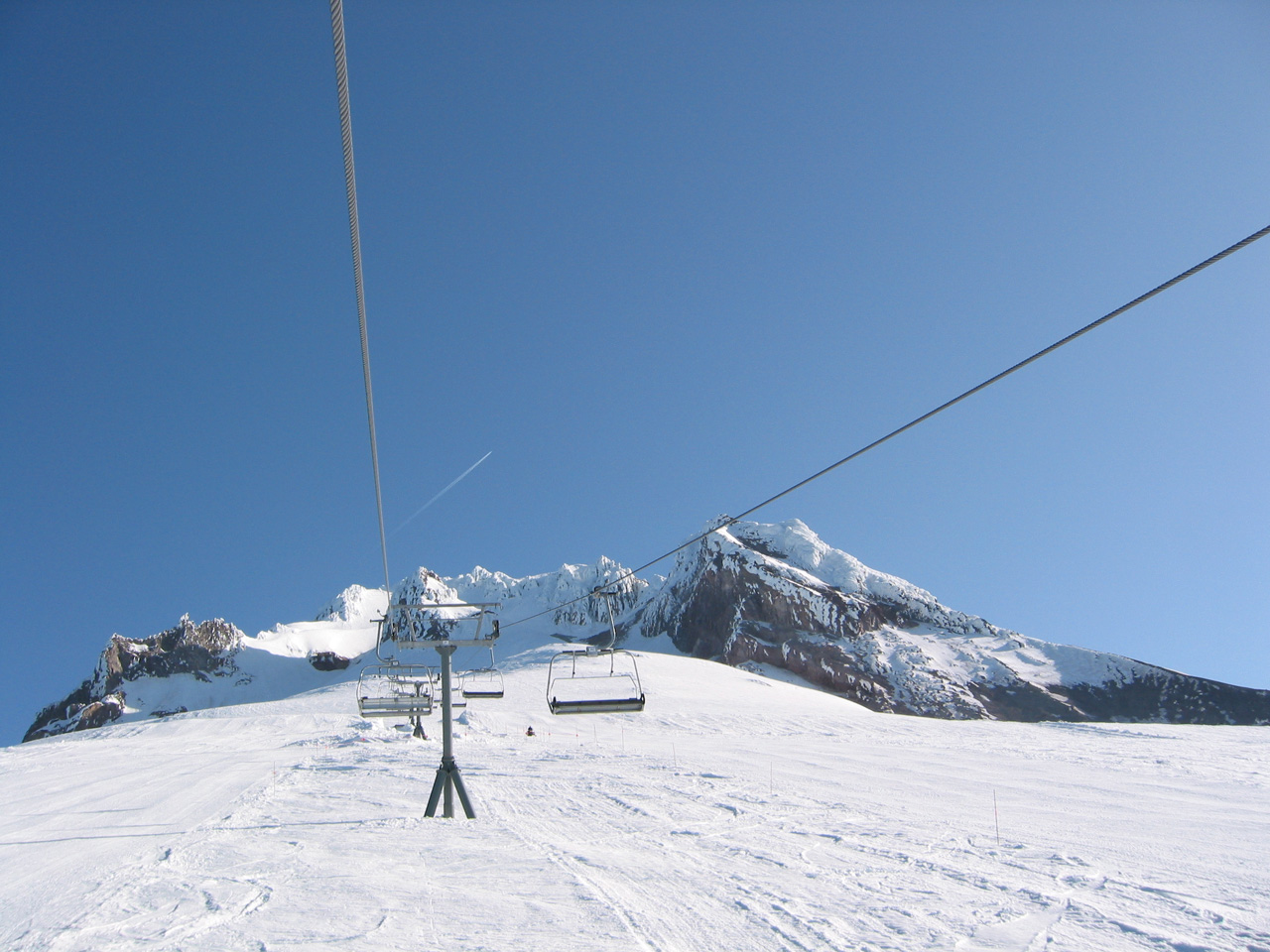 Timberline Lodge Ski Area on Mount Hood, showing the Palmer chairlift below the summit.